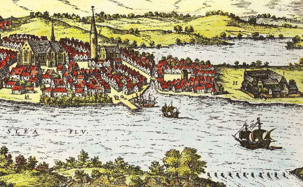 Historical sight of the German town of Schleswig